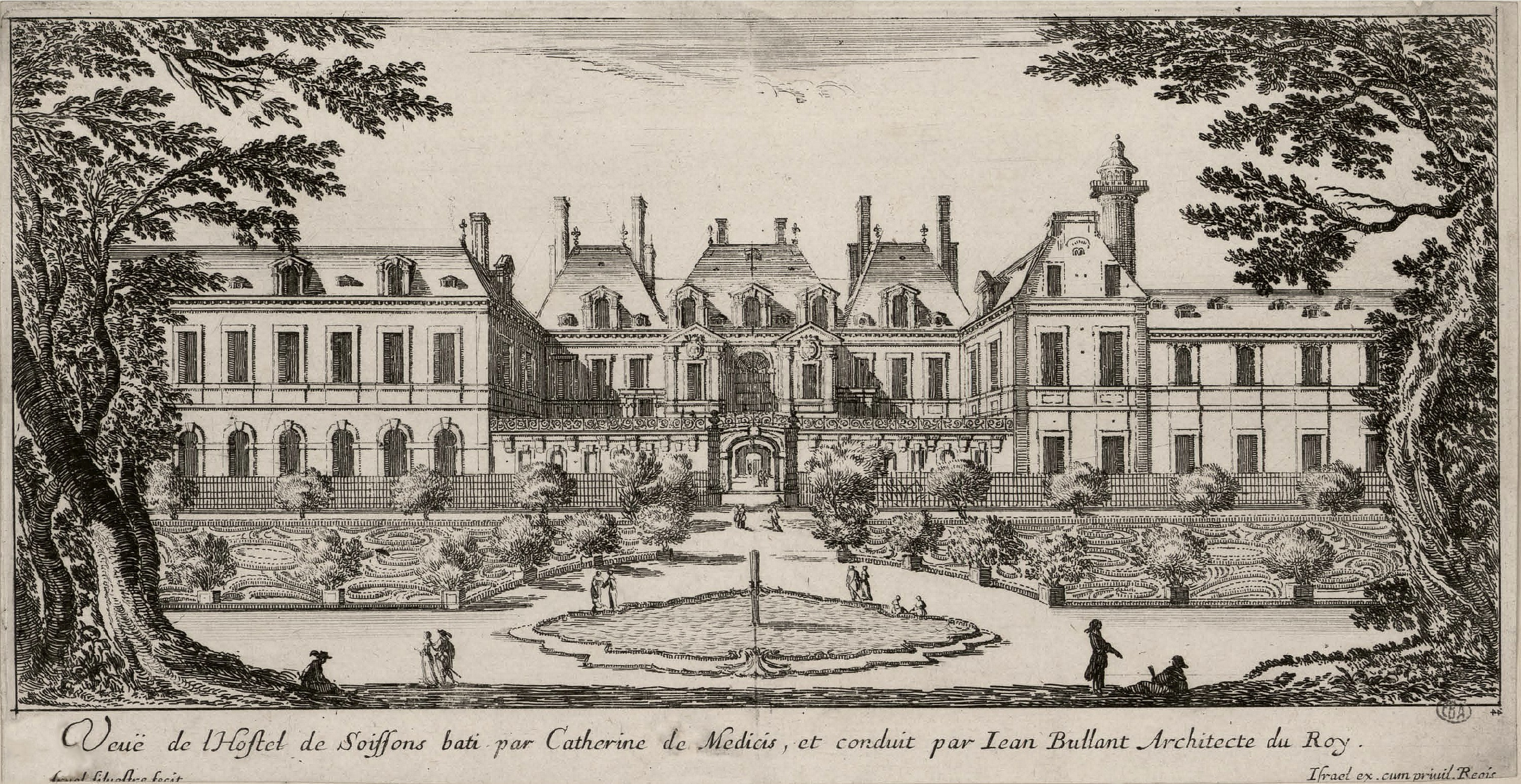 Israël Silvestre (1621-1691): Hôtel de Soissons in the 17th century, copperplate engraving